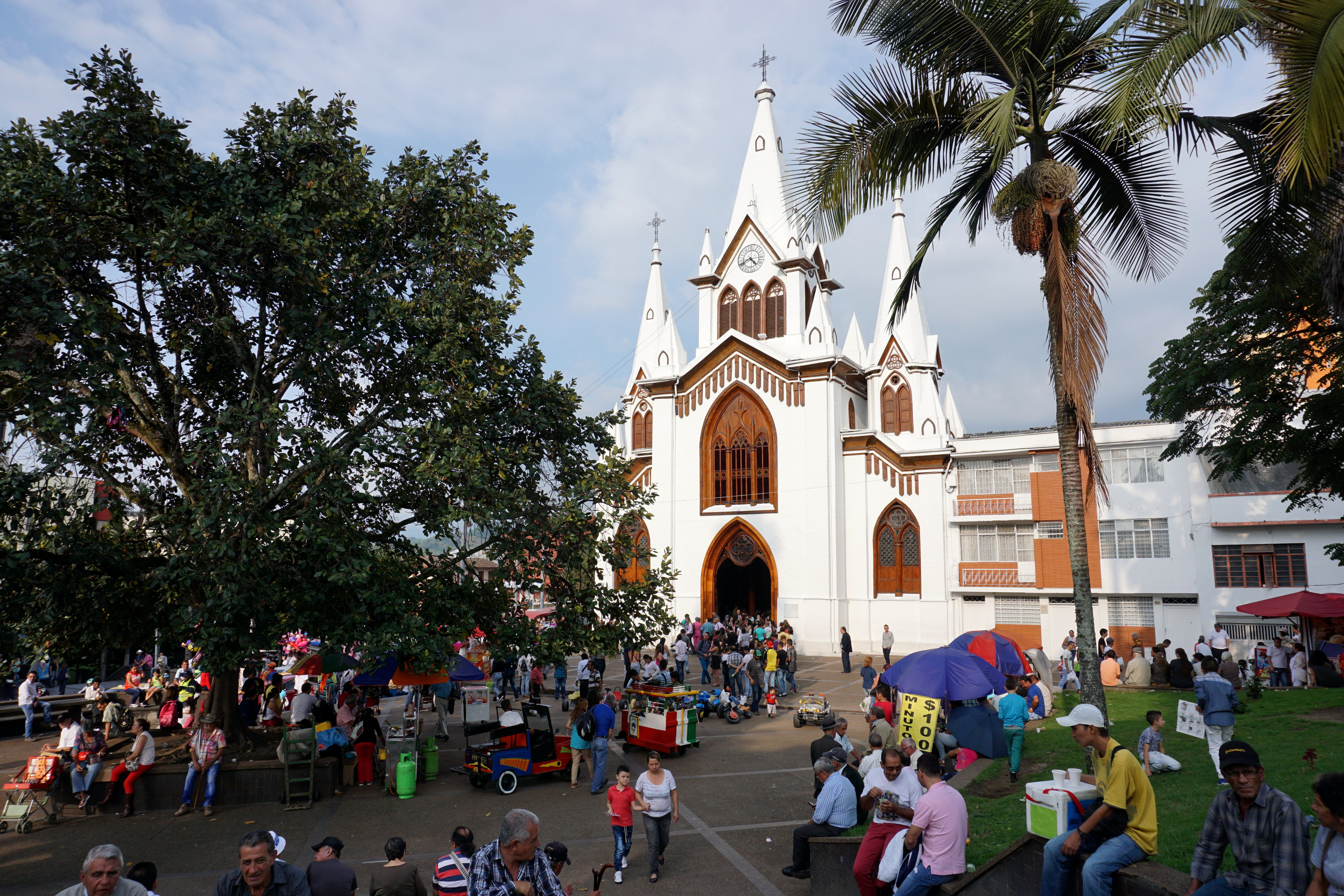 Basílica Menor Inmaculada Concepción, Manizales, from the outside